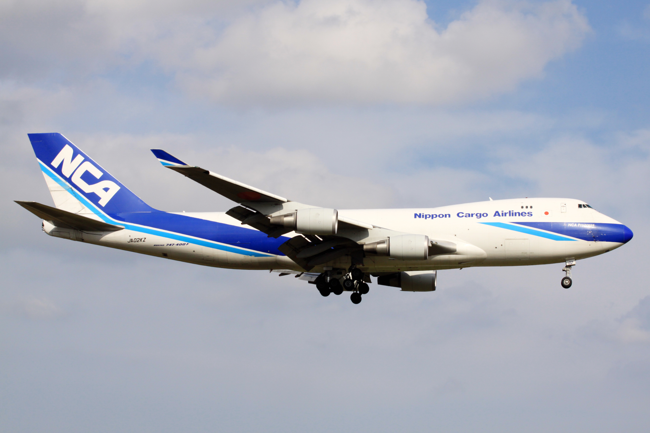 Final approach to Runway 16R, Narita International Airport, Boeing 747-481F(SCD), c/n:34017 Nippon Cargo Airlines